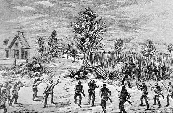 The Battle of Eccles Hill. This illustration features men of the 50th volunteer battalion in battle against members of the Fenian Brotherhood.